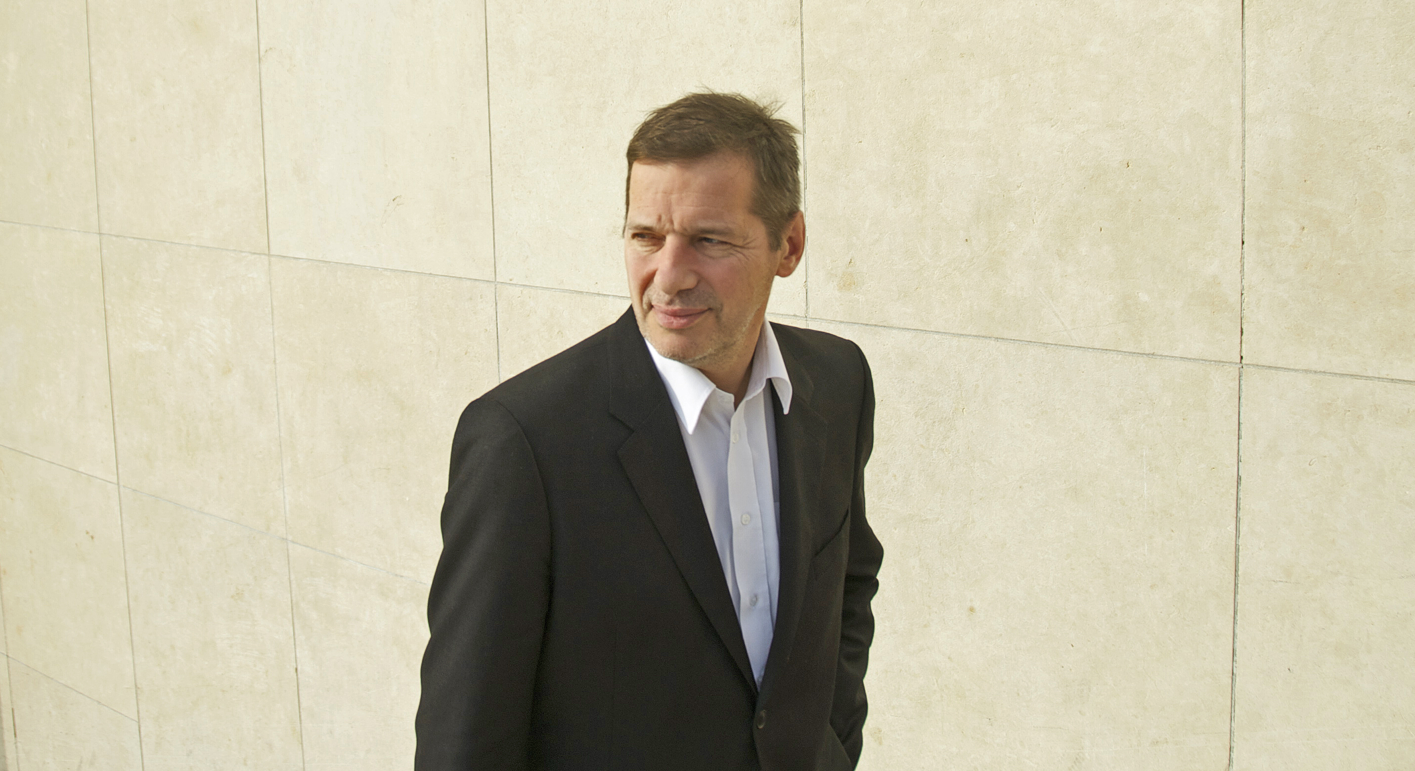 Christian Michelides, Paris 2011